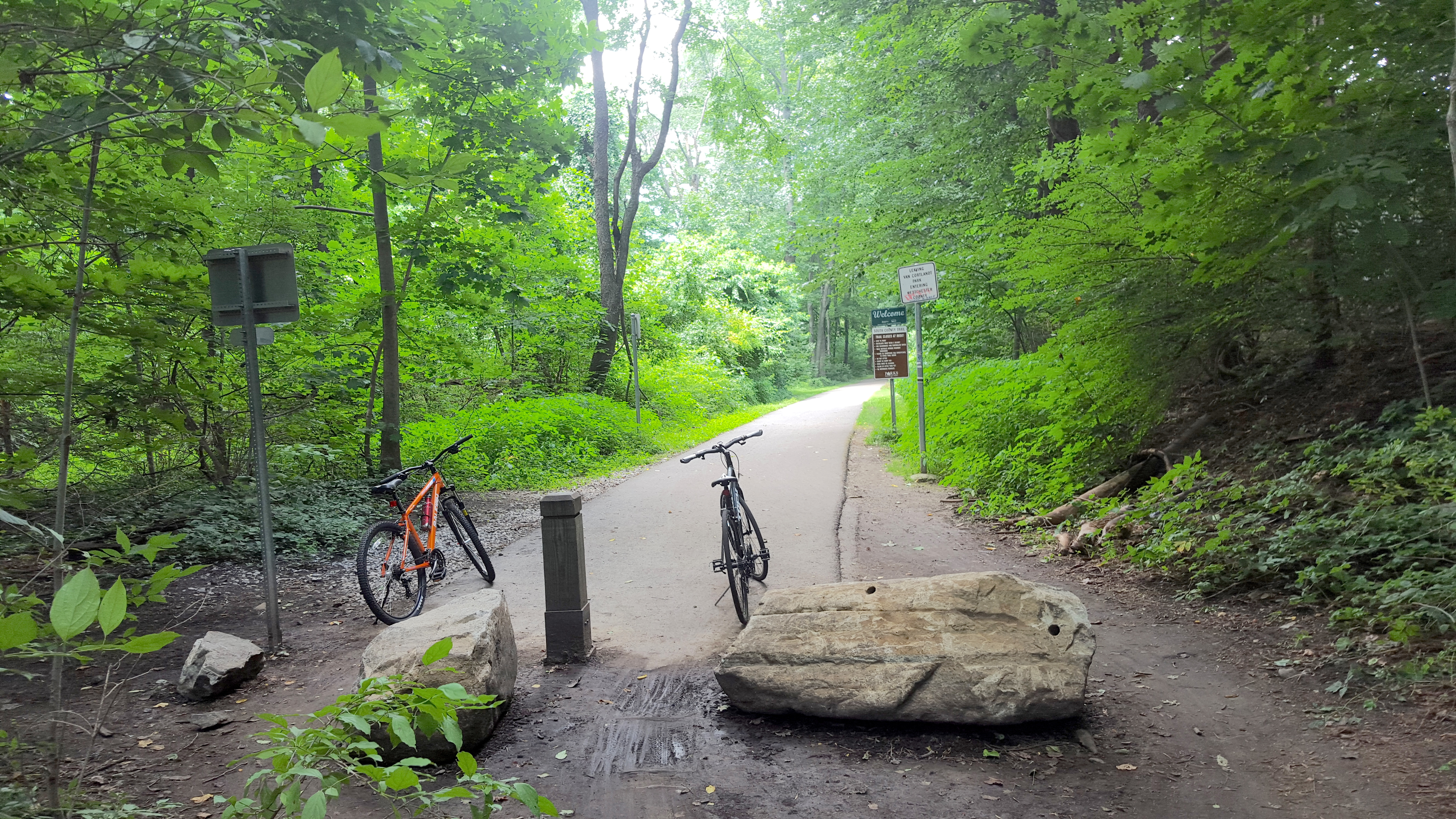 Southern End of Westchester South County Trailway, located at the New York City-Yonkers border